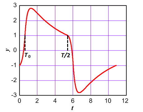 Relaxation oscillations of Biryukov oscillator at big F